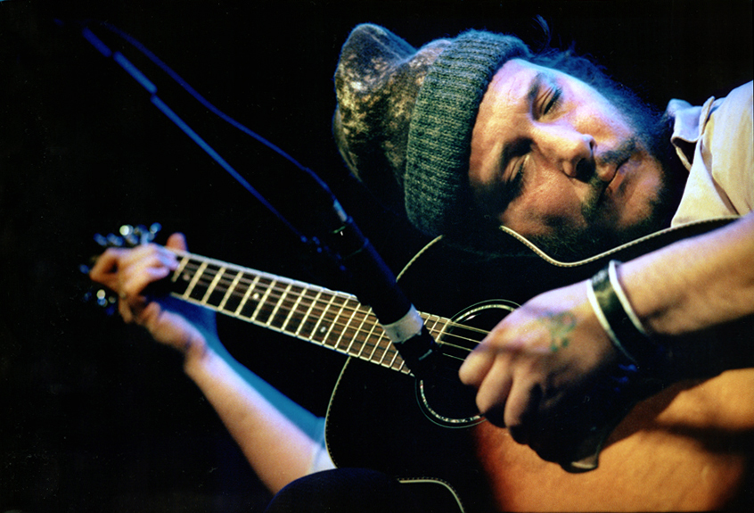 Jack Rose playing at the Luminaire in 2007